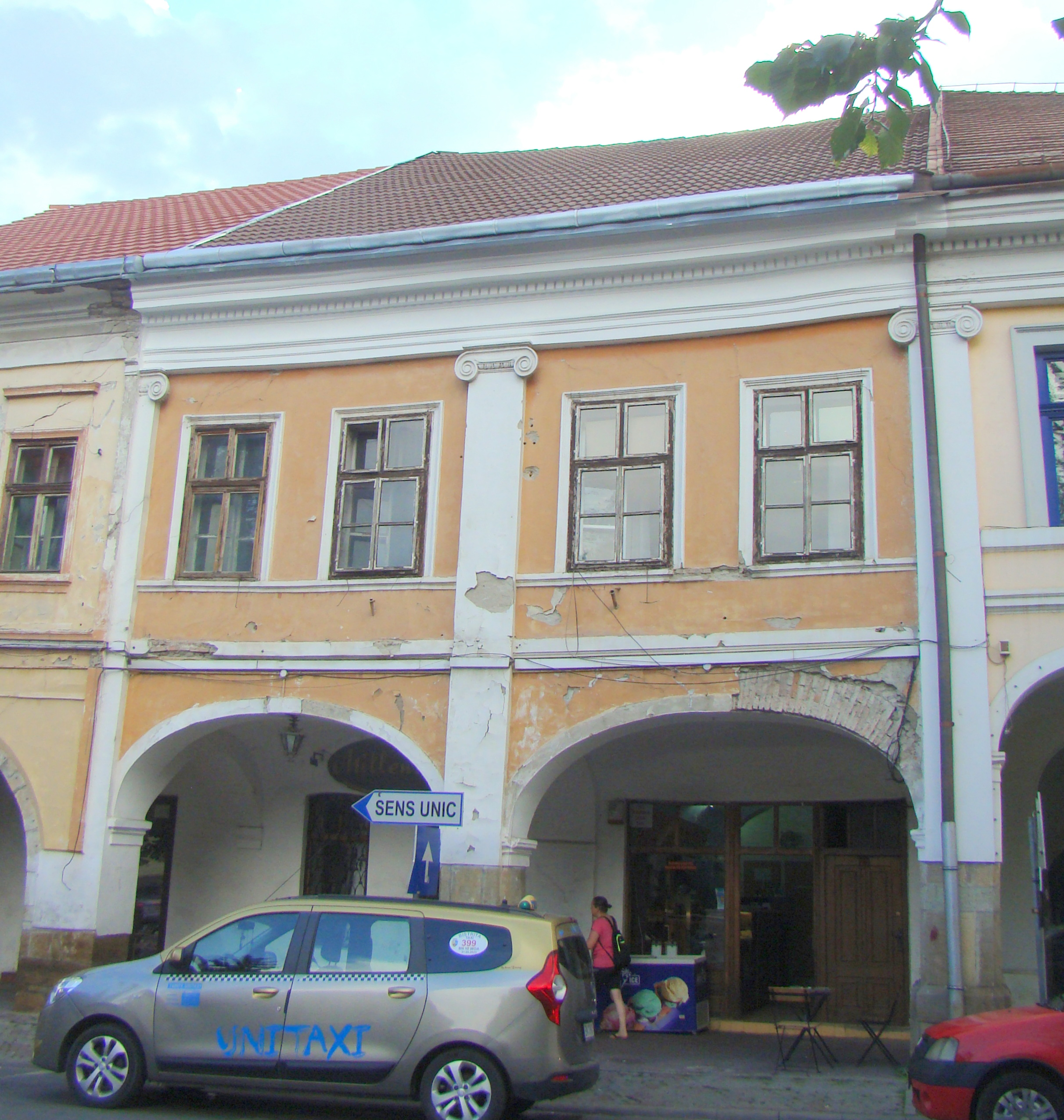 Houses, historic monuments, in Bistrița, Piața Centrală 13-24